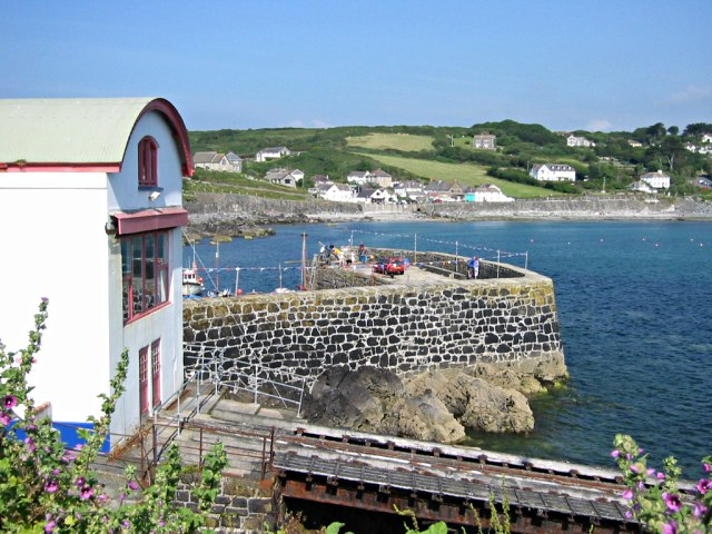 The Old Lifeboat Station and Harbour Wall Coverack used to be a thriving fishing port with a reputation for smuggling. Now most of the fishing boats have disappeared. The lifeboat station was closed in 1972. The village now has a mixture of retired incomers and holidaymakers along with families who have lived here for generations.